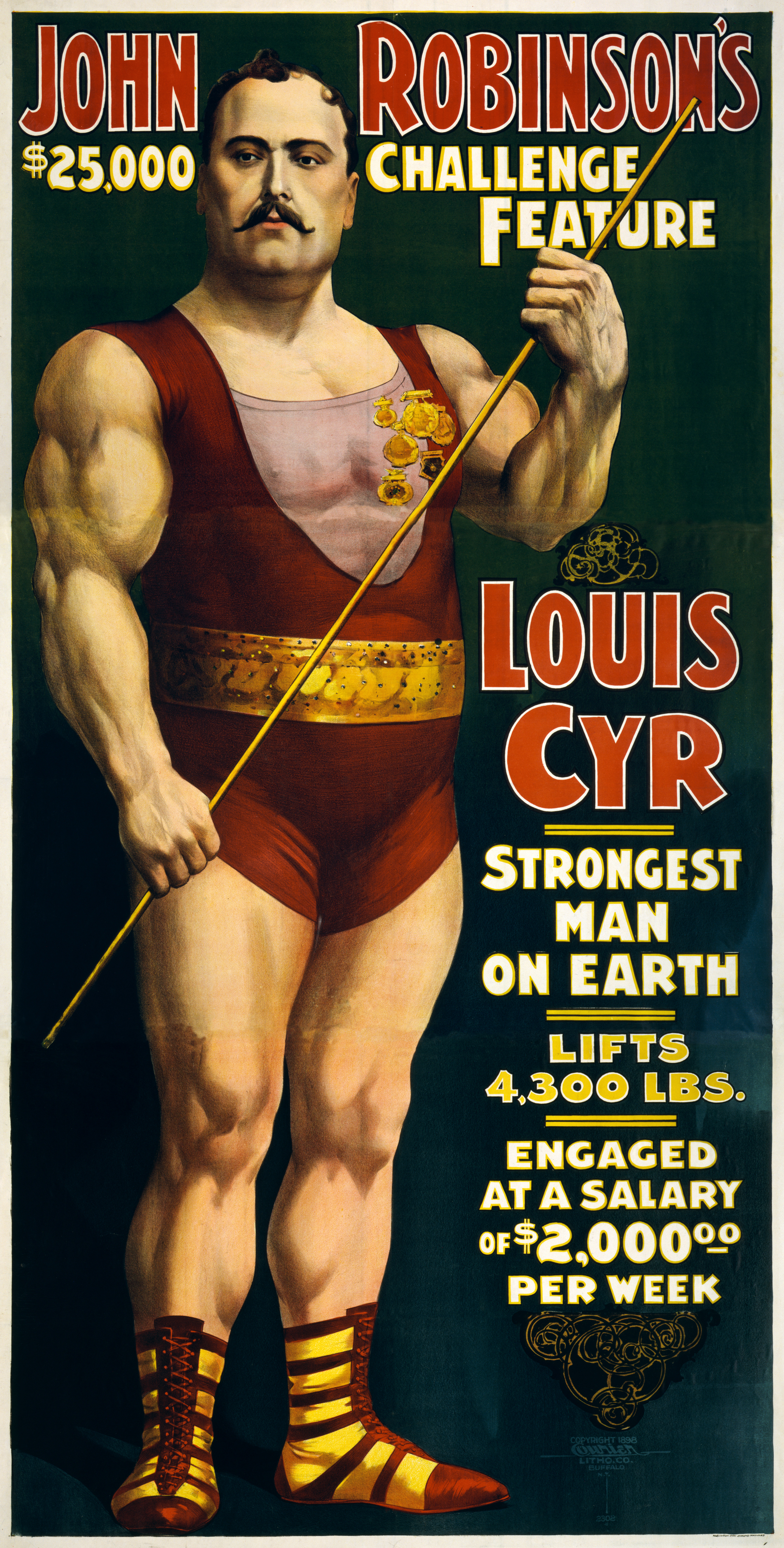 John Robinson's $25,000 challenge feature--Louis Cyr, strongest man on earth, lifts 4300 lbs. Engaged at a salary of $2000 per week.